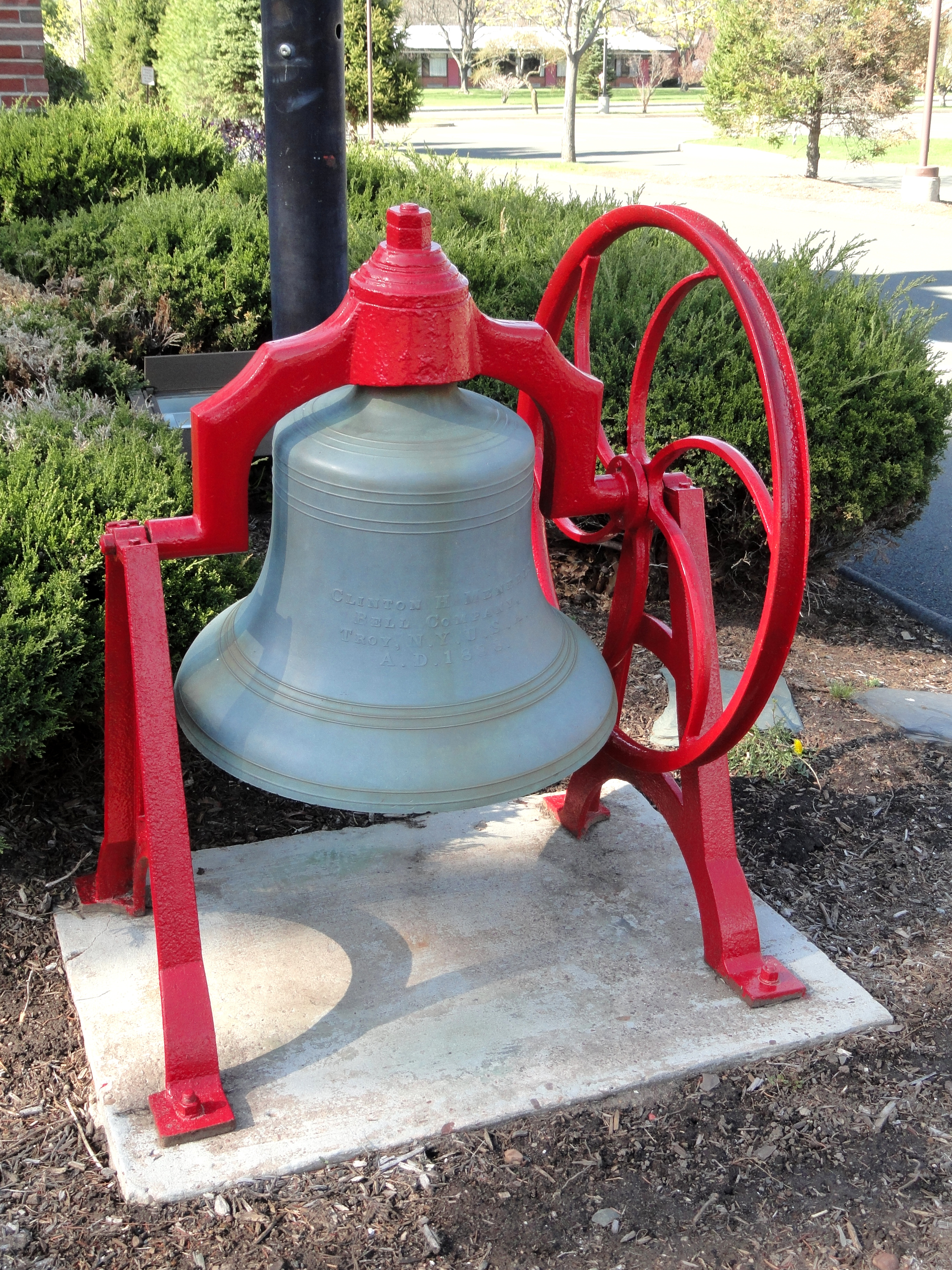 Bell by Meneely Bell Foundry - Bloomfield, Connecticut, USA.